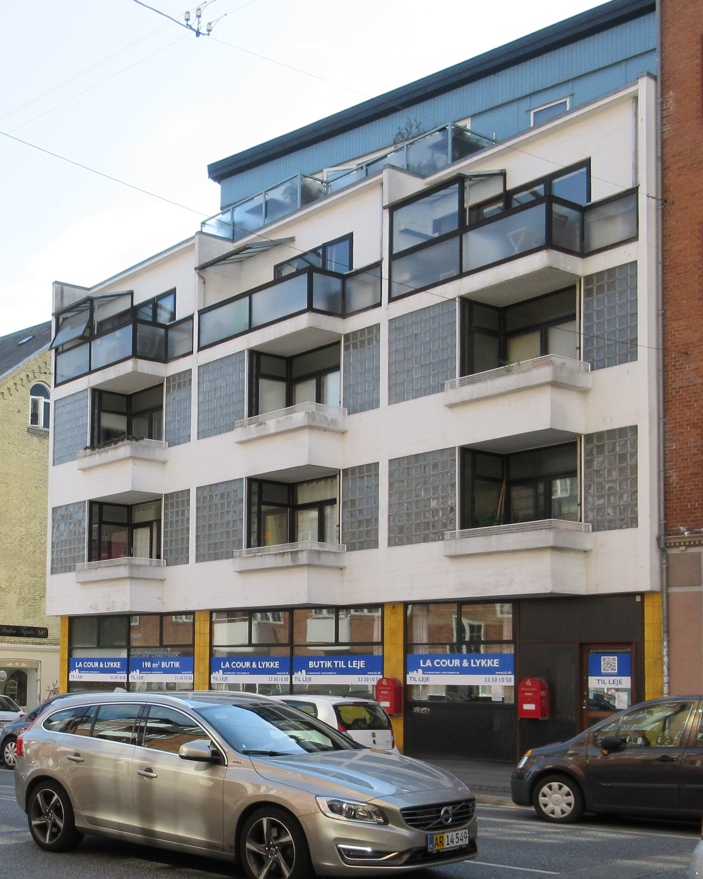 H.C. Ørsteds Vej 54 in Frederiksberg, Copenahgen, Denmark. Built 1939 to a design by architect Edvard Thomsen.